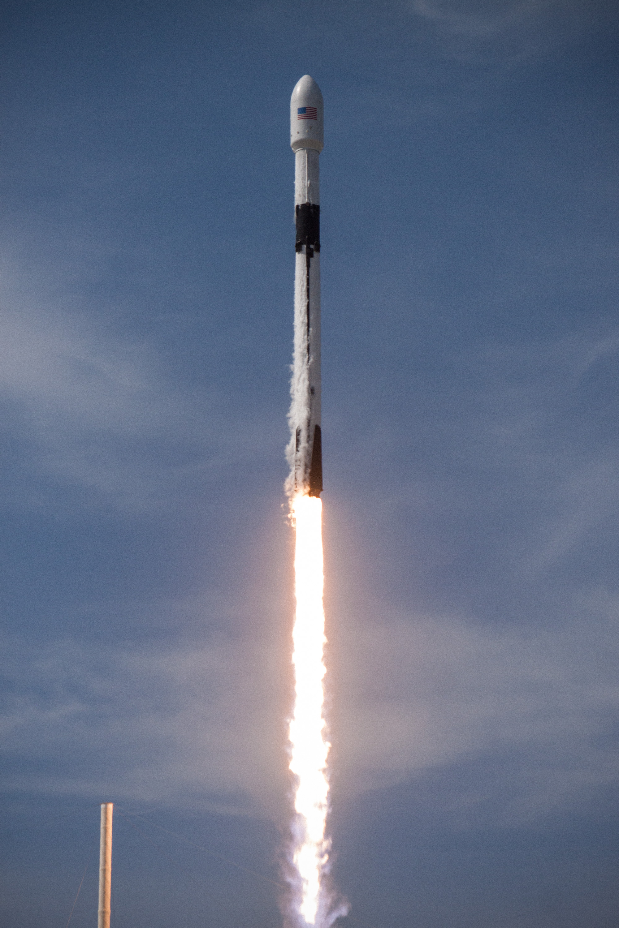 Bangabandhu Satellite-1 Mission